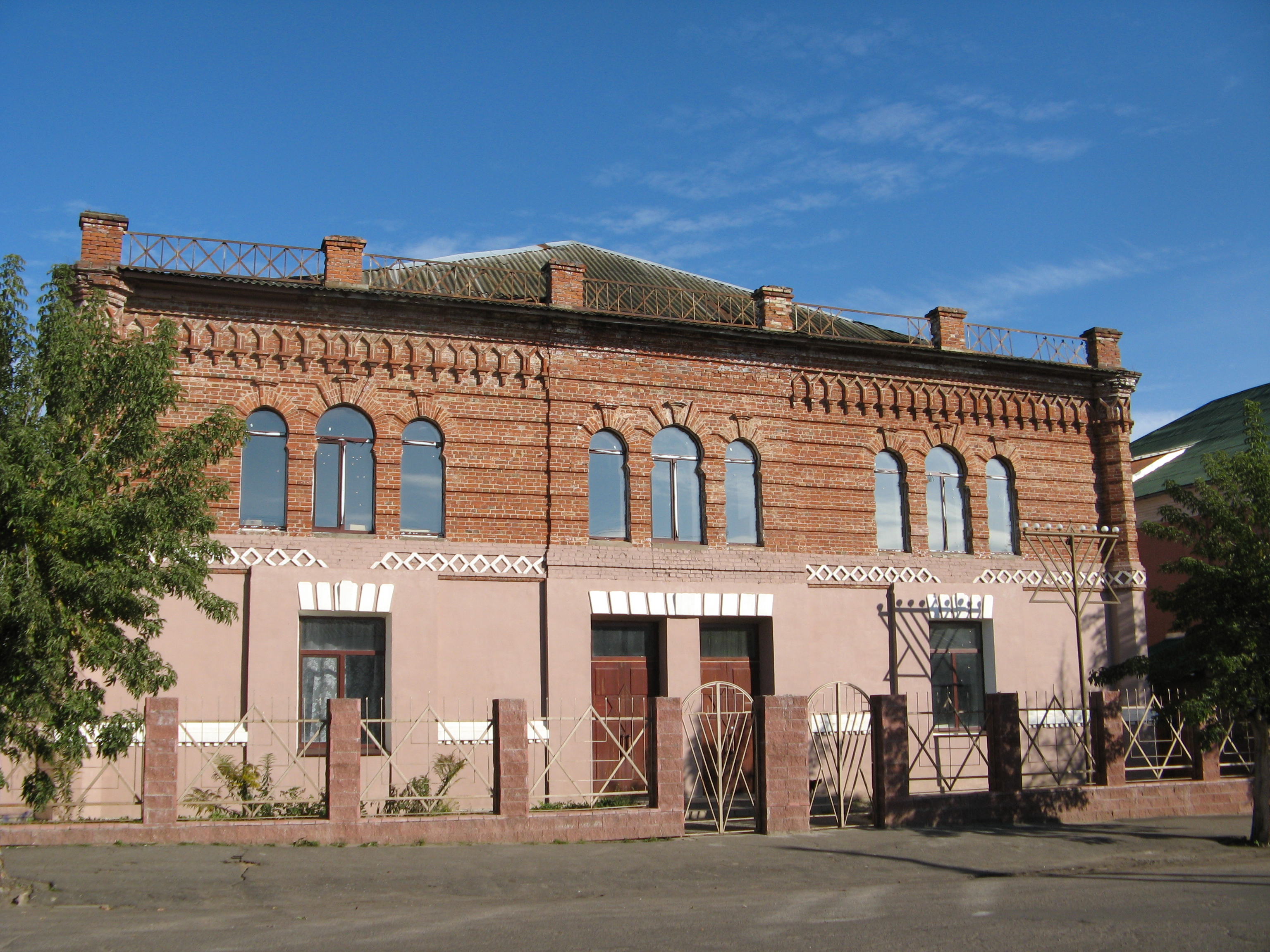 Synagogue on Sacyjalistycznaja str